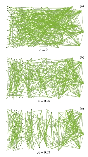 created from data gathered by myself